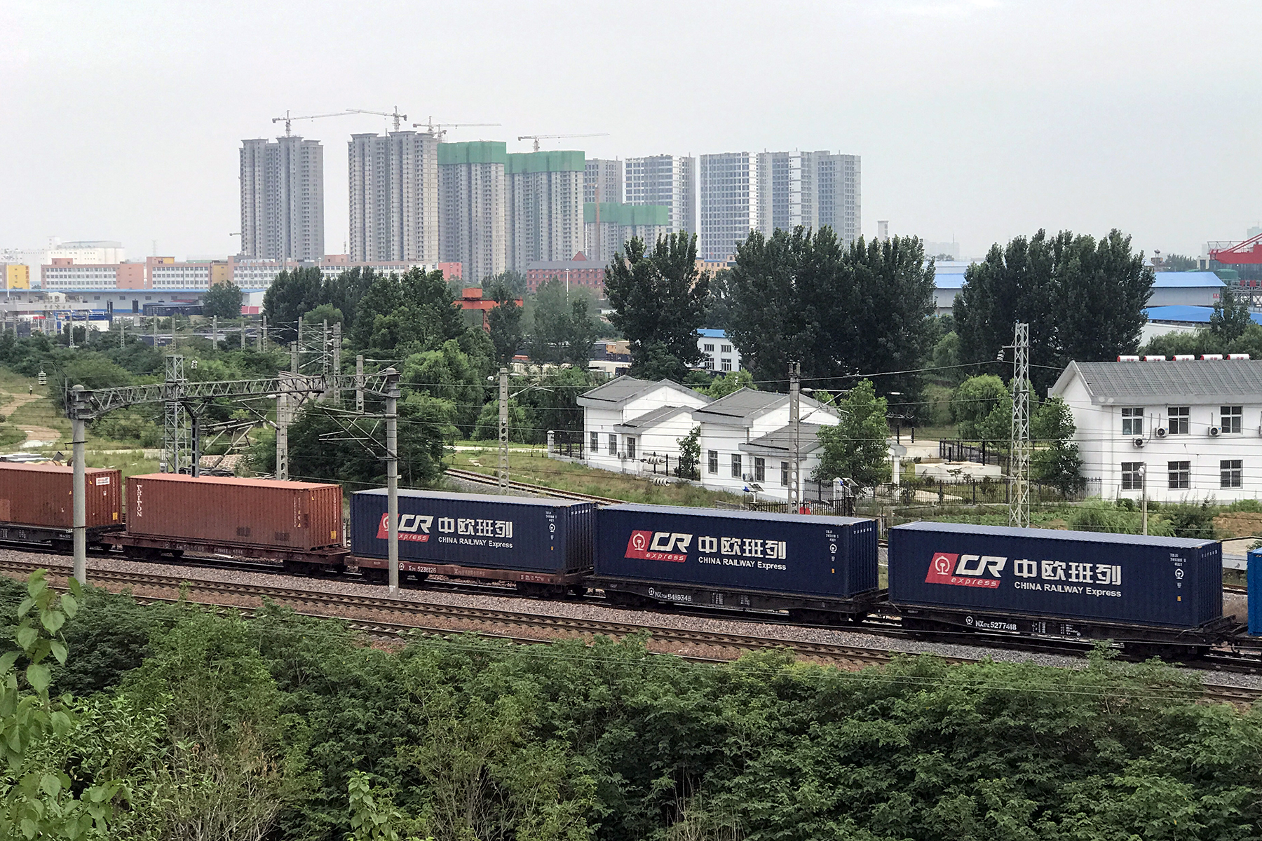 A freight train carrying CR Express containers leaving Zhengzhou Railway Container Terminal